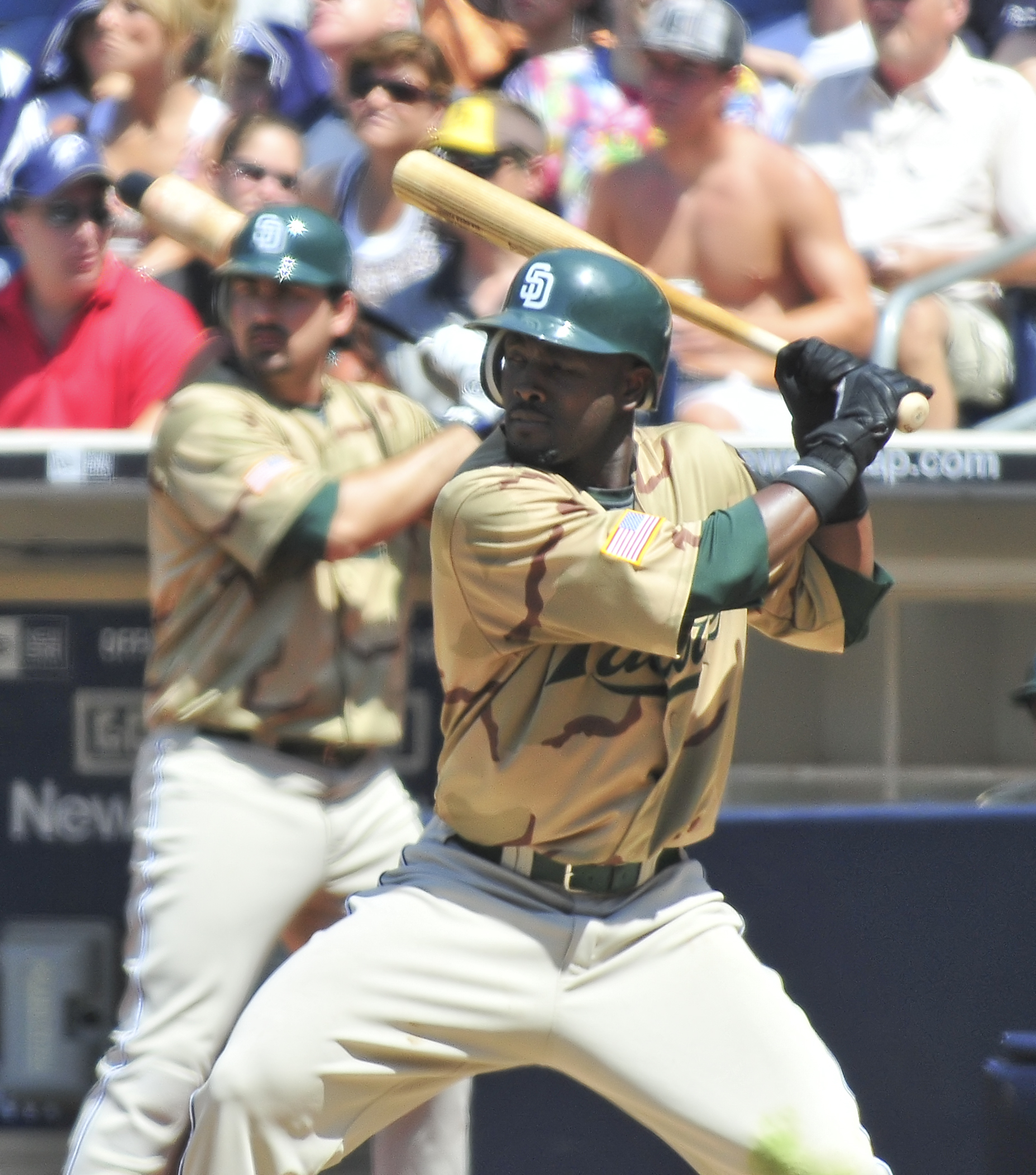 Tony Gwynn Jr, baseball player for the San Diego Padres